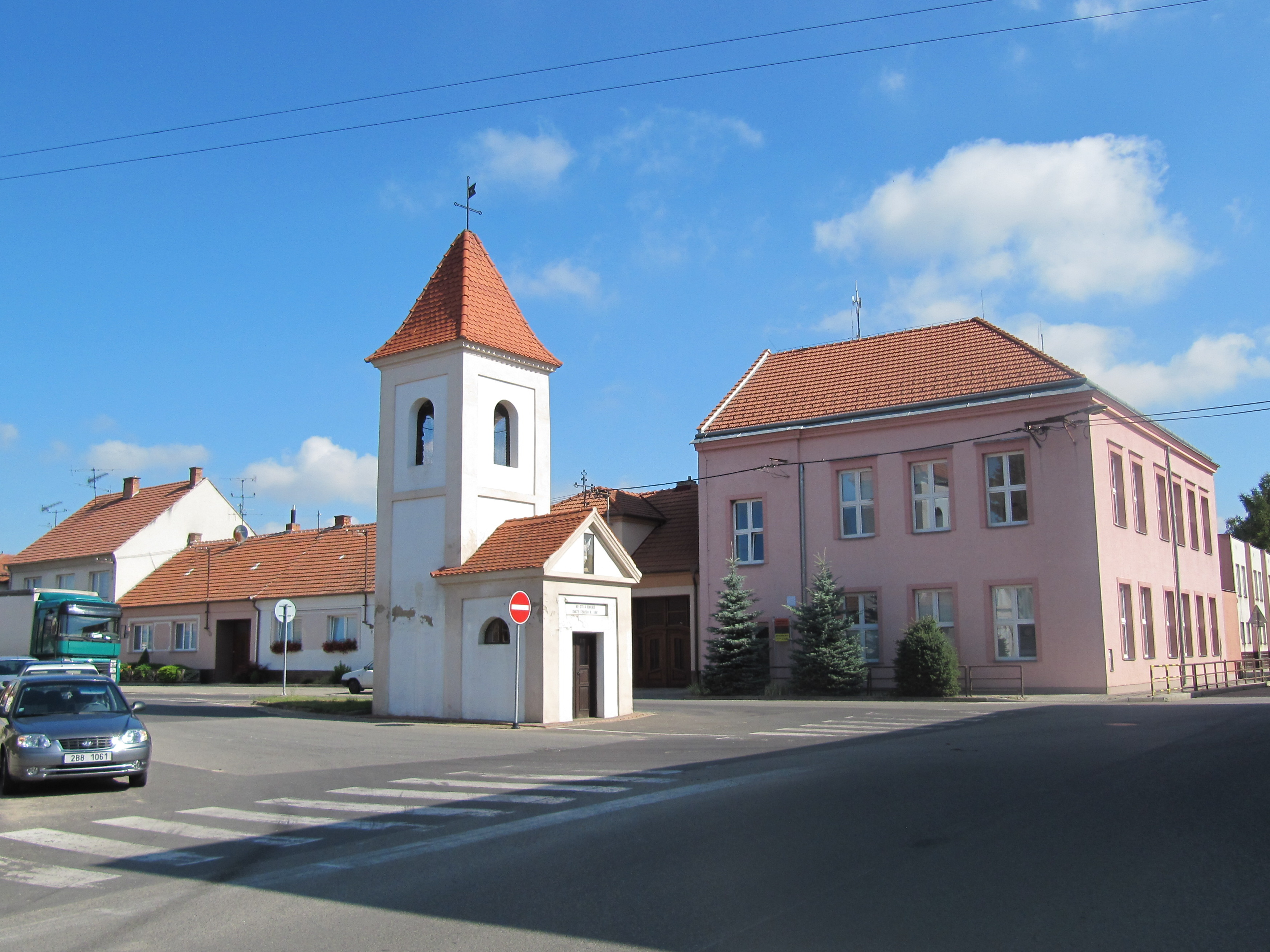 Kostice in Břeclav District, Czech Republic. Chapel of St. Theresa with belfry. This photograph was taken within the scope of the third year of the 'Czech Municipalities Photographs' grant.